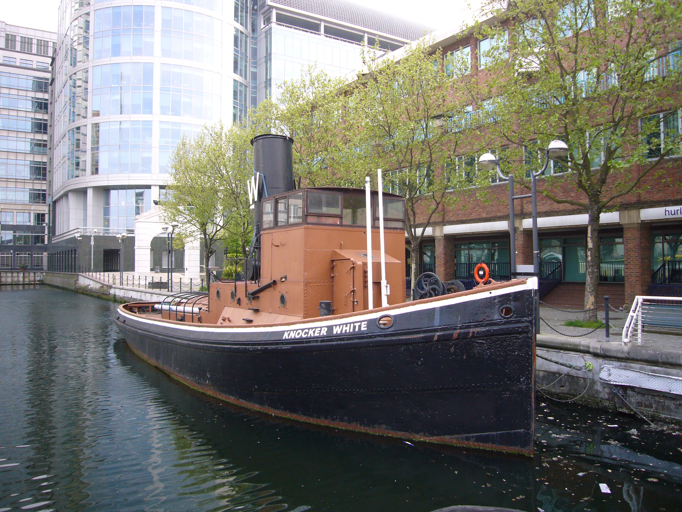 Knocker White at West India Quay (London Docklands, UK)